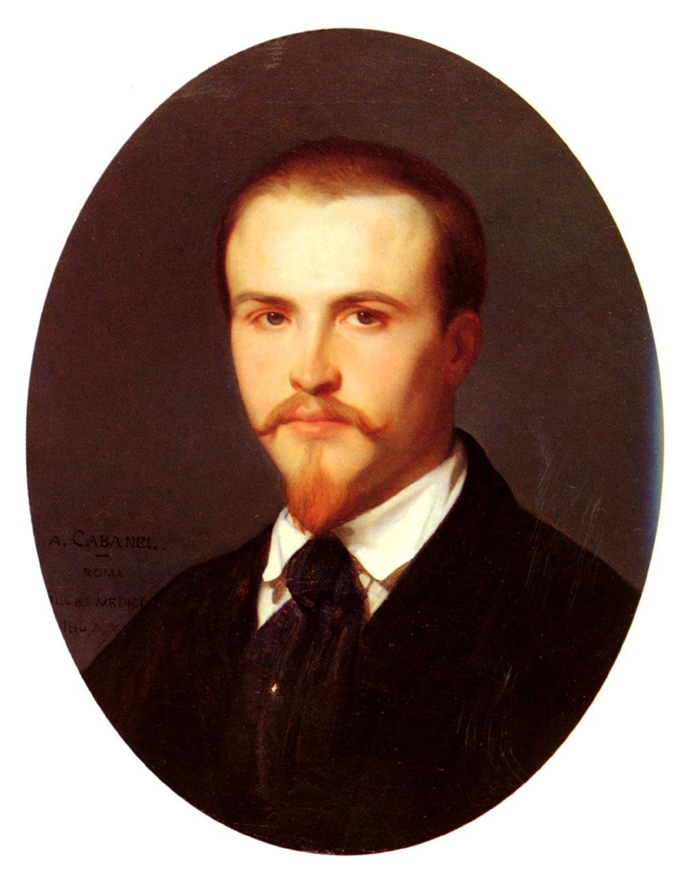 Alexandre Cabanel (French, 1823-1889): Félix Massé. 1847.Category:Images of paintings This is Félix Massé by Alexandre Cabanel and not Alexandre Cabanel himself.